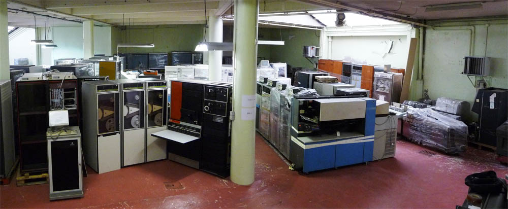 ACONIT Main frames level.